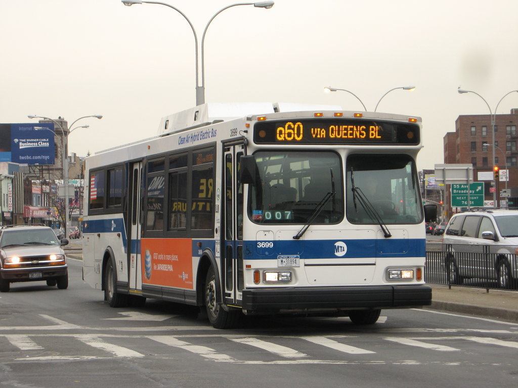 MTA Bus Orion #3699 at Queens Boulevard and 57 Avenue on the Q60 line in Elmhurst, New York